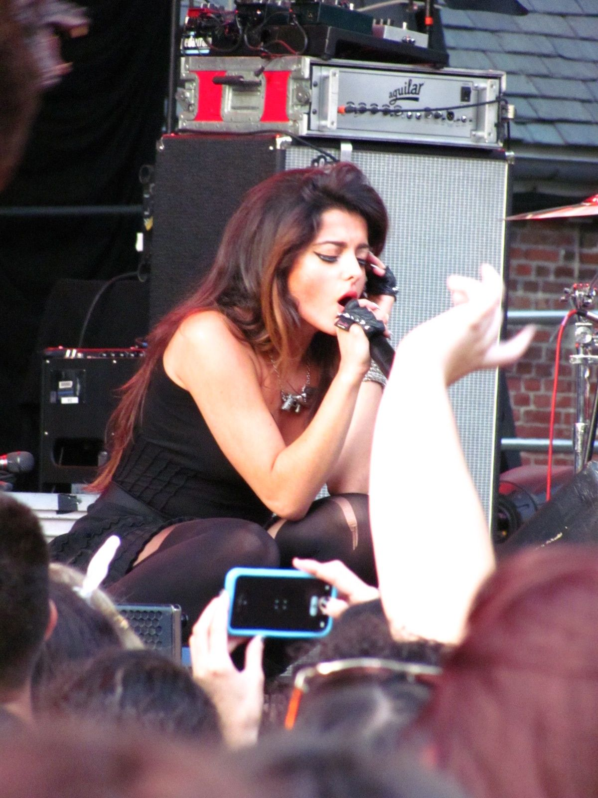 Bebe Rexha-Black Cards @ Central Park Summerstage